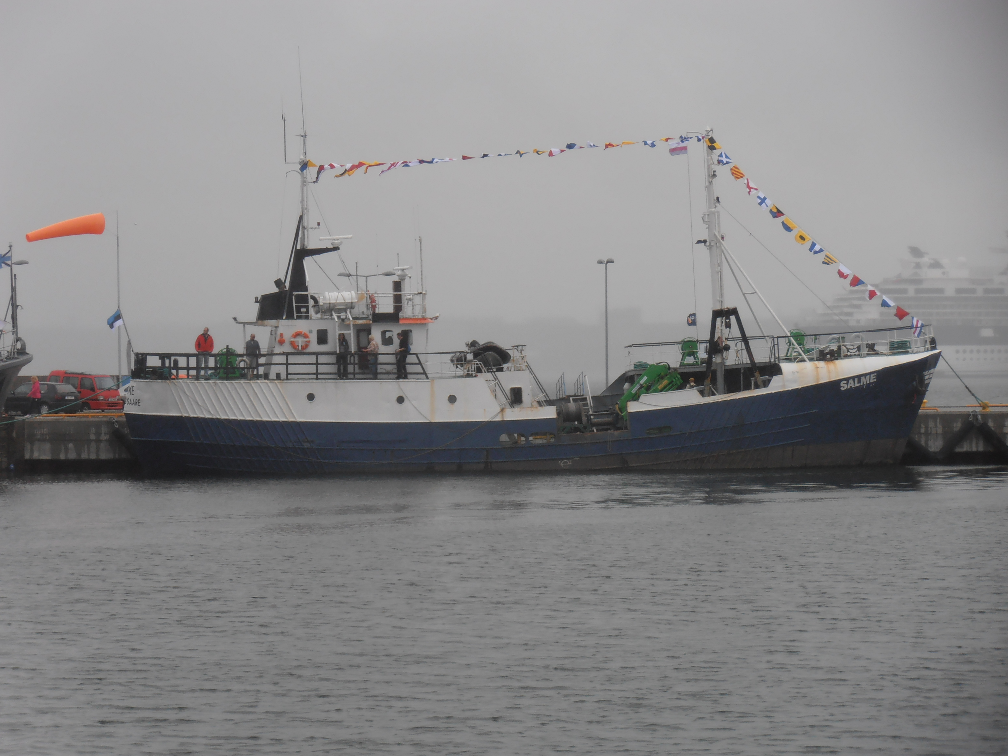 Salme at quay B in Lennusadam Tallinn 15 July 2012 (jack of M313 Admiral Cowan on the foremast on the left; Celebrity Constellation on the right in the background)